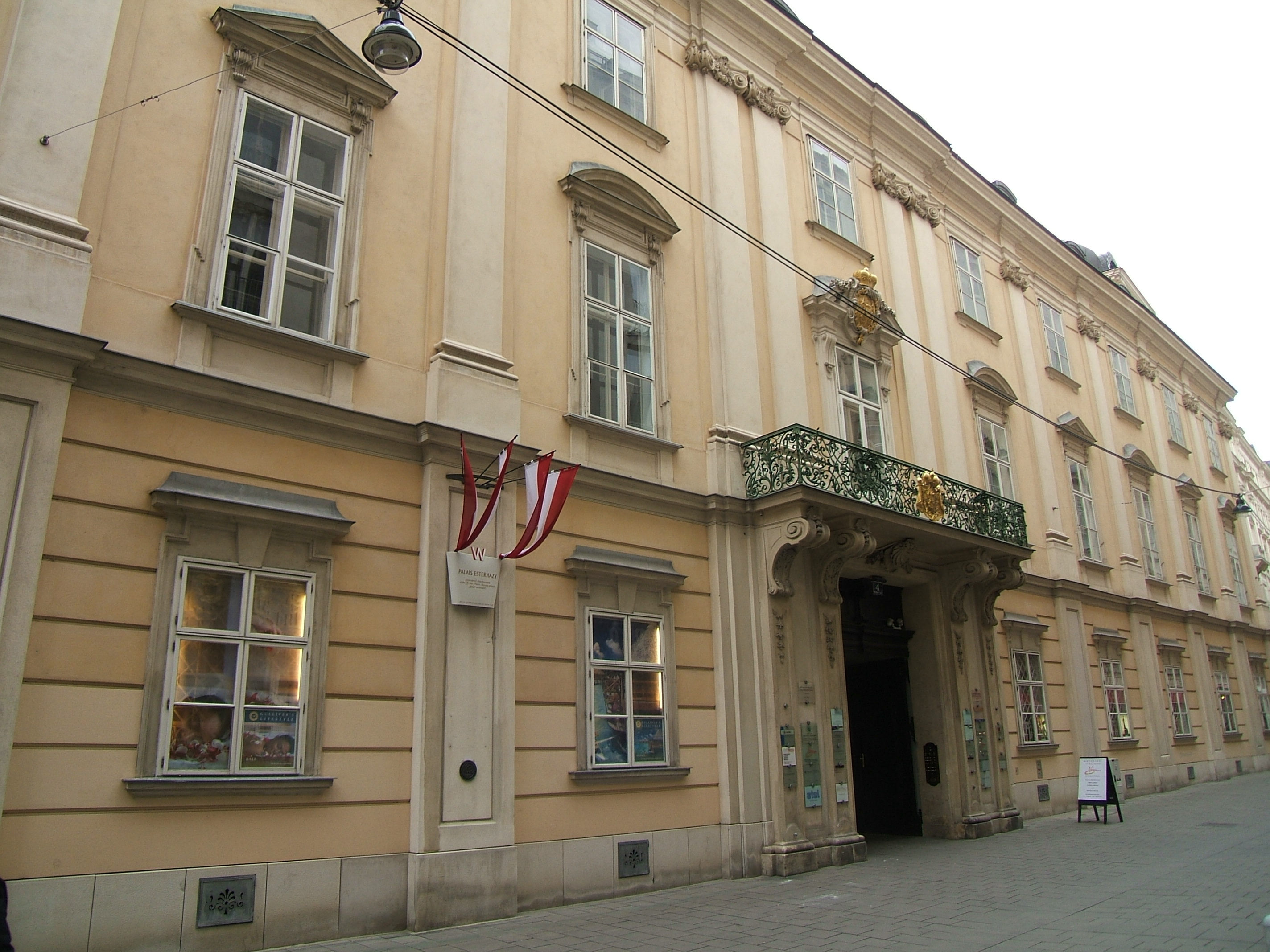 Palais Esterházy in Vienna, 1st district Wallnerstraße 4